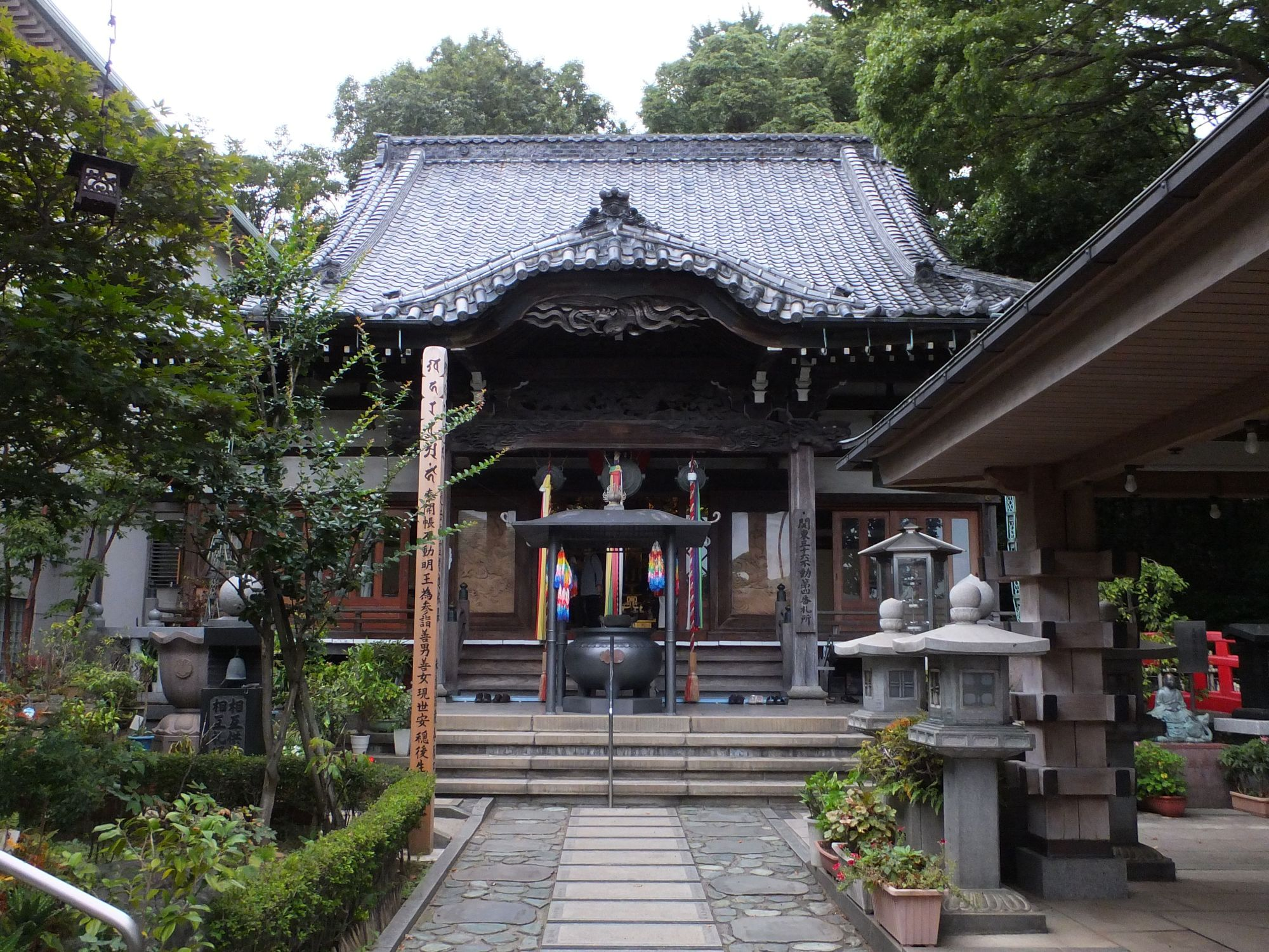 Shinpuku-ji temple in Hodogaya-ku, Yokohama, Kanagawa prefecture